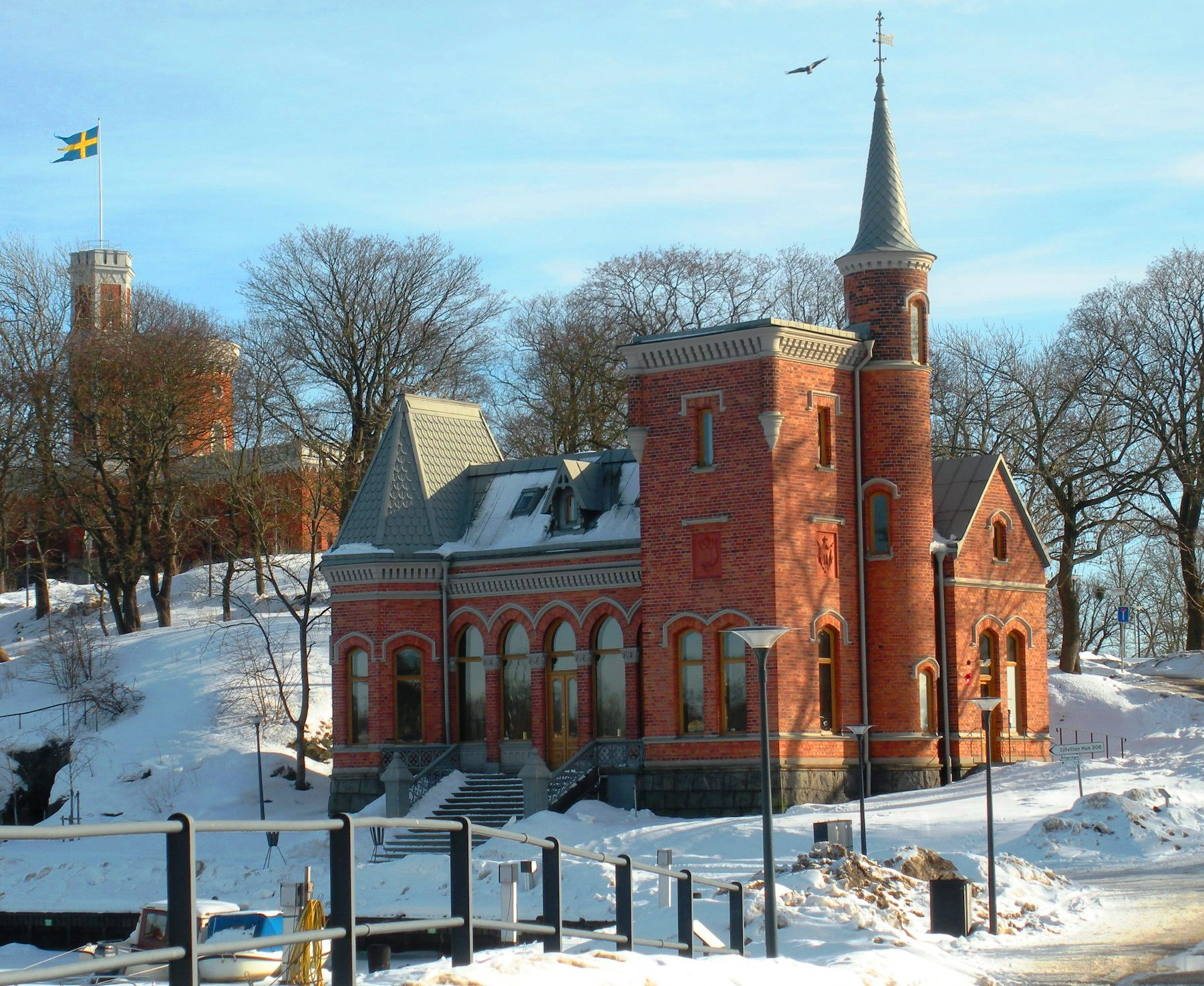 View_on_Kastellholmen_island_in_Stockholm